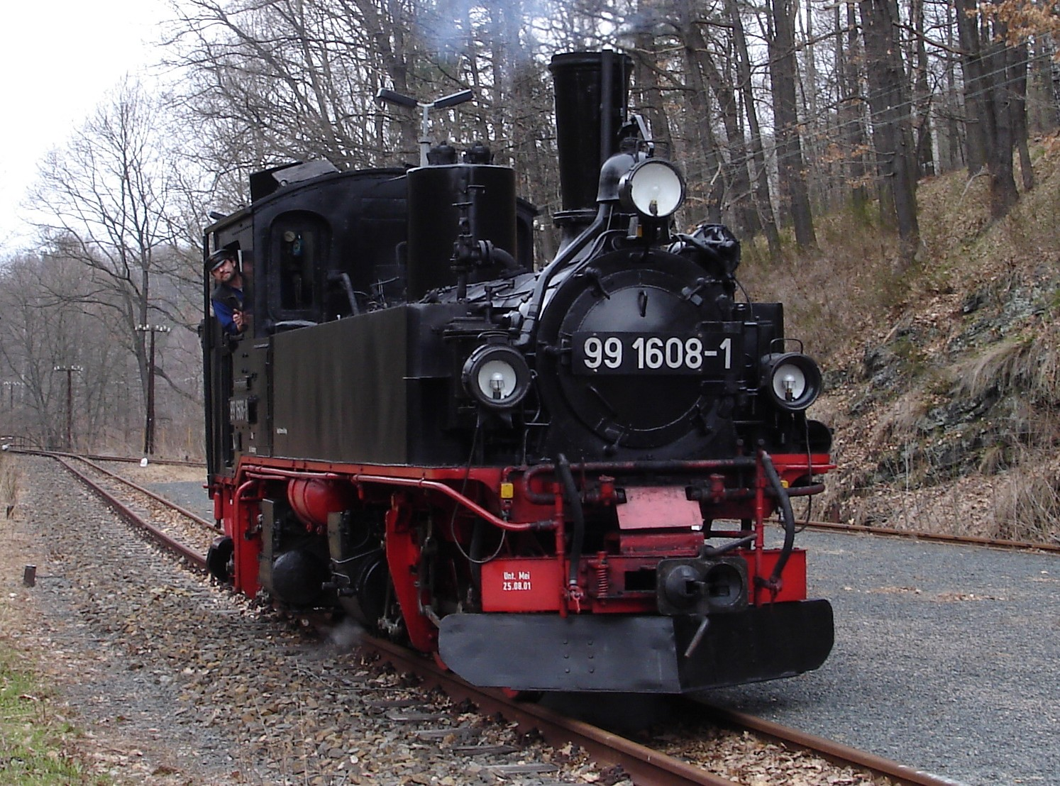 narrow gauge steam lokomotive IV K (DR 99.51-60), Weißeritztalbahn, Germany